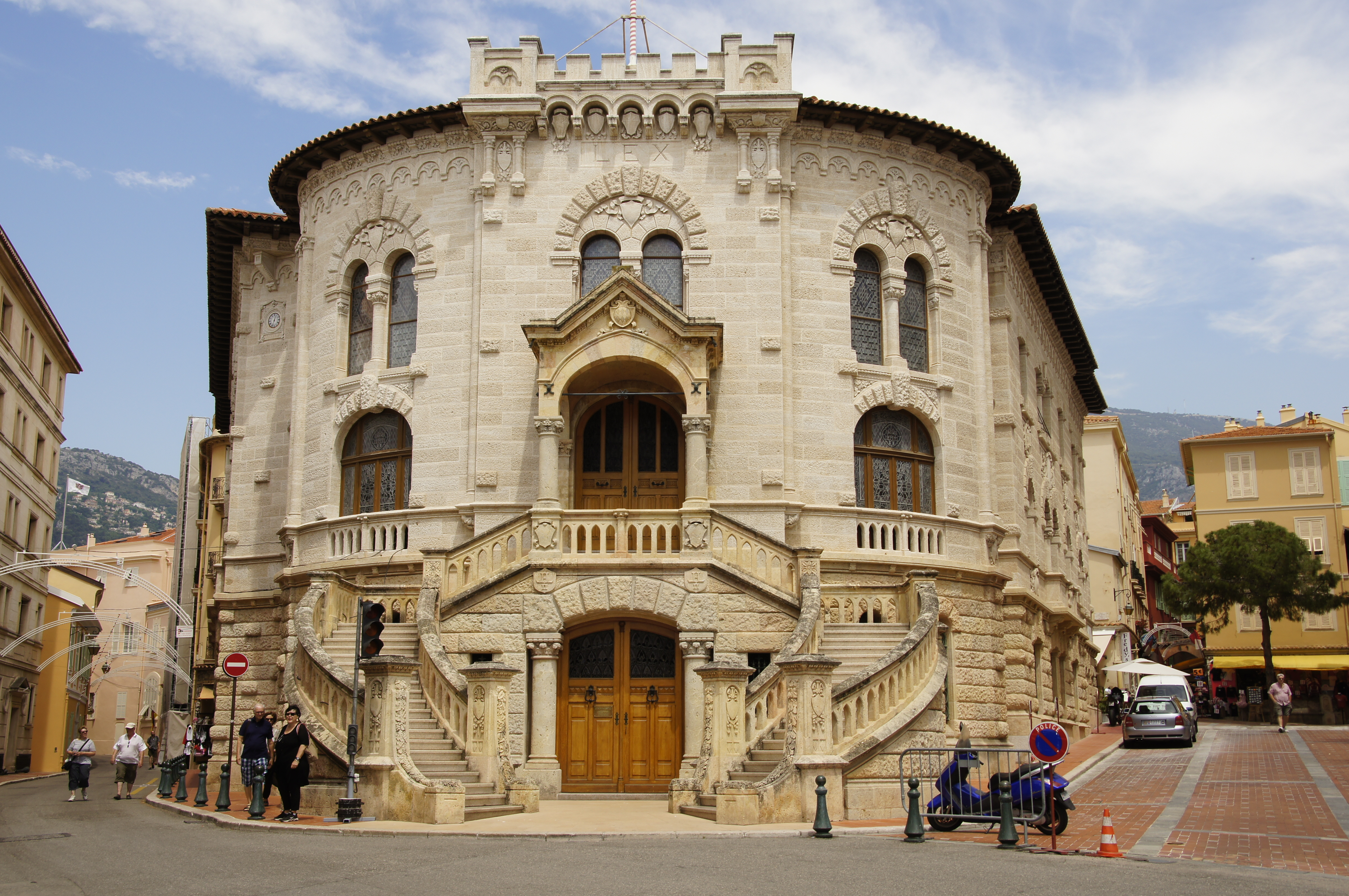 Palace of justice in Monaco